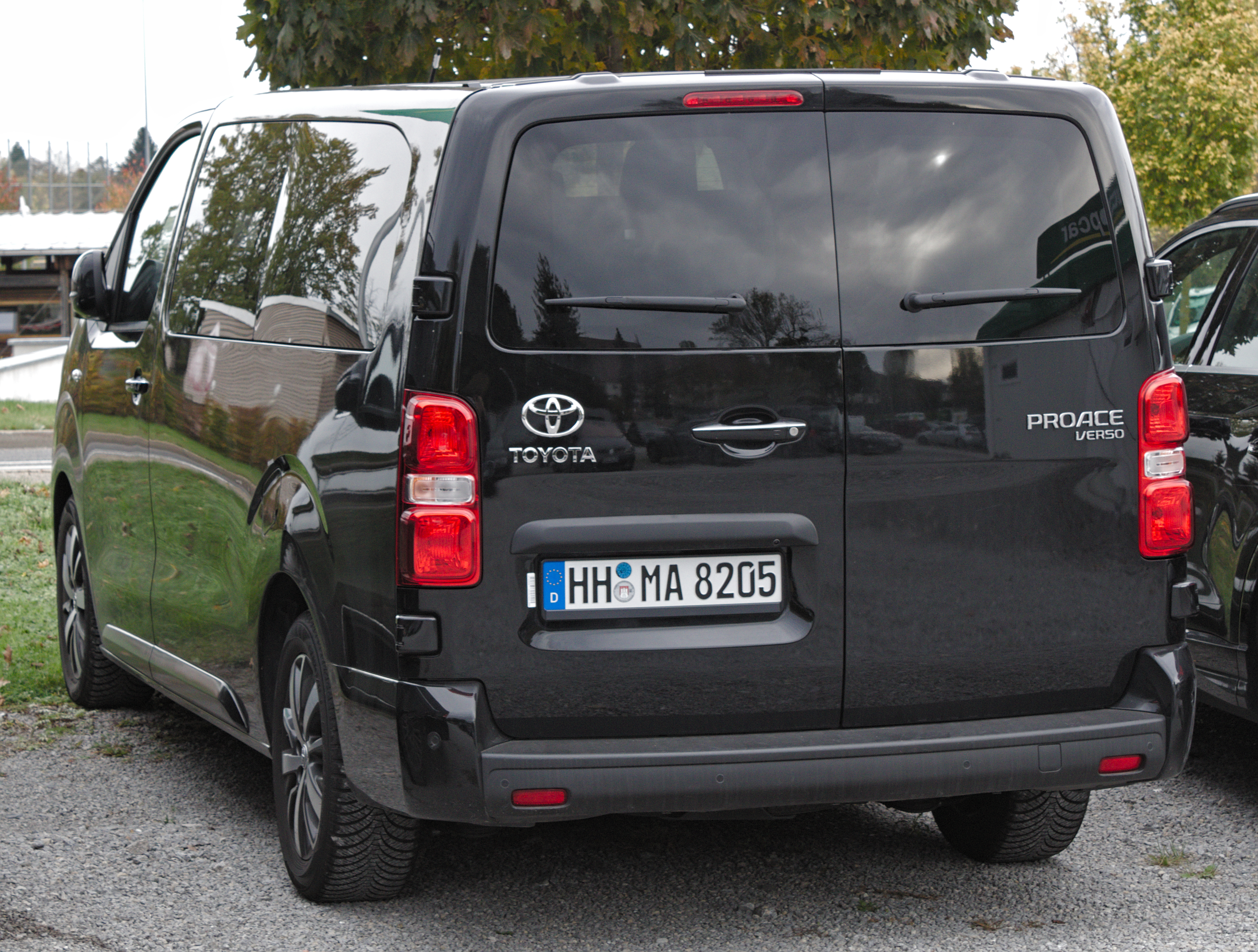 Toyota_ProAce_Verso in Stuttgart-Vaihingen